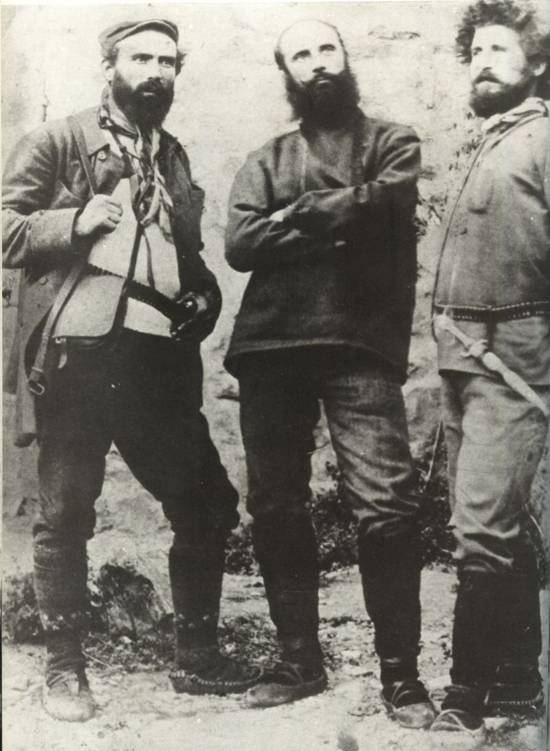 Pavel Deliradev, Yané Sandansky and Todor Panitsa in Bansko, 1908